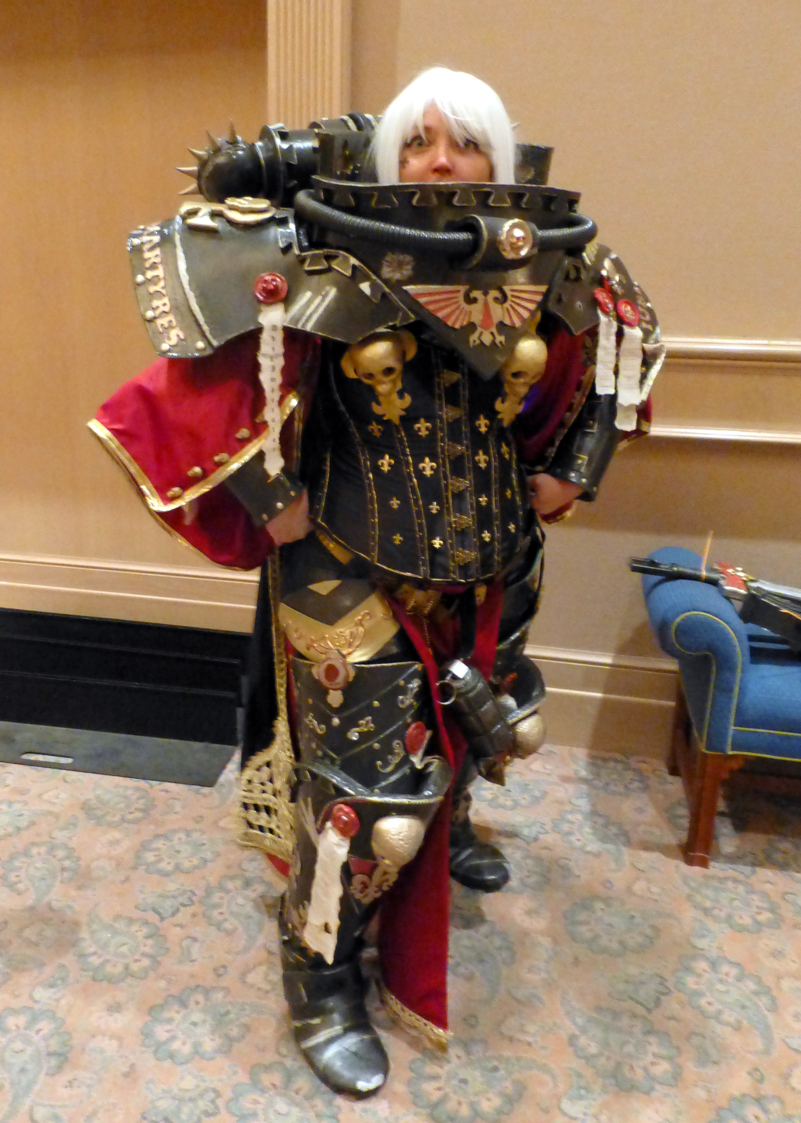 Cosplay at the 2014 Wizard World Chicago.